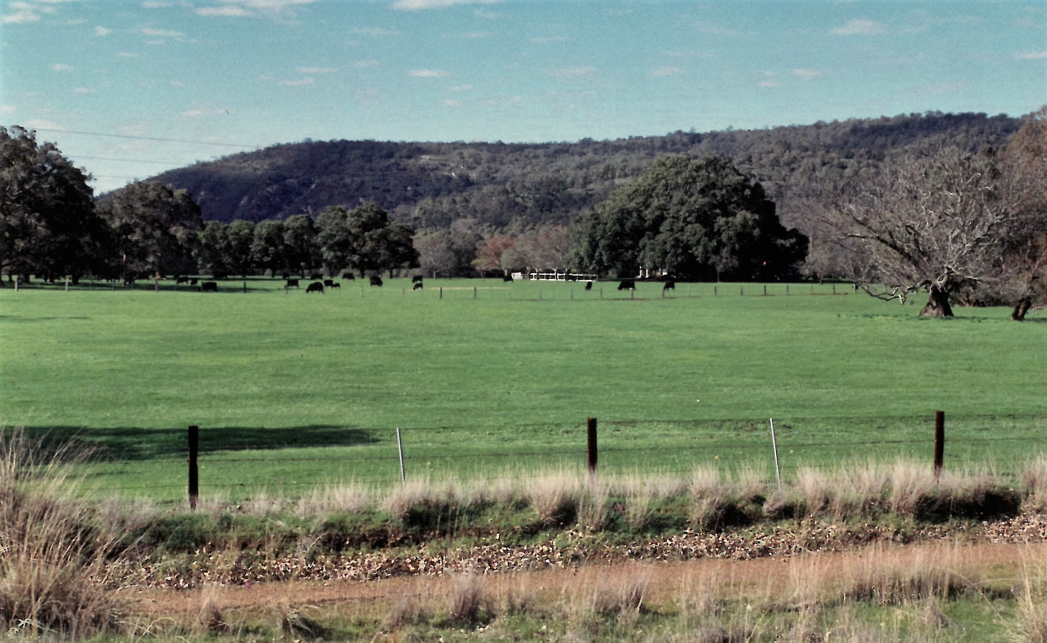 View over Wongong Farm from the South-Western Railway. Morton Bay fig concealing 1918 homestead, and gorge on LHS.